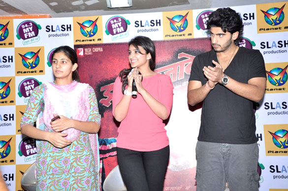 Parineeti Chopra,Arjun Kapoor From The Cast of 'Ishaqzaade' visit Planet M, Jaipur.